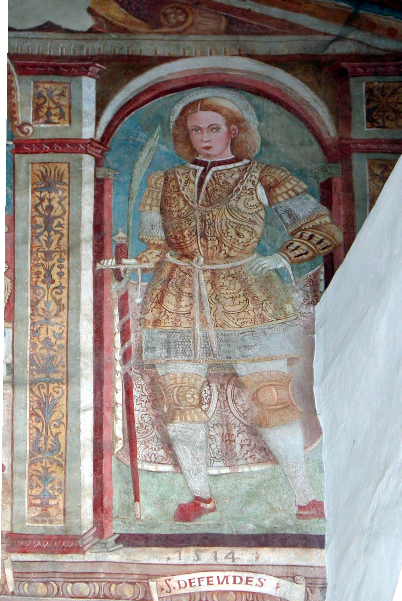 Clusone Italy Chiesa di San Defendente (Clusone) Church of Saint Defendente author:Paolo da Reggio - 2006